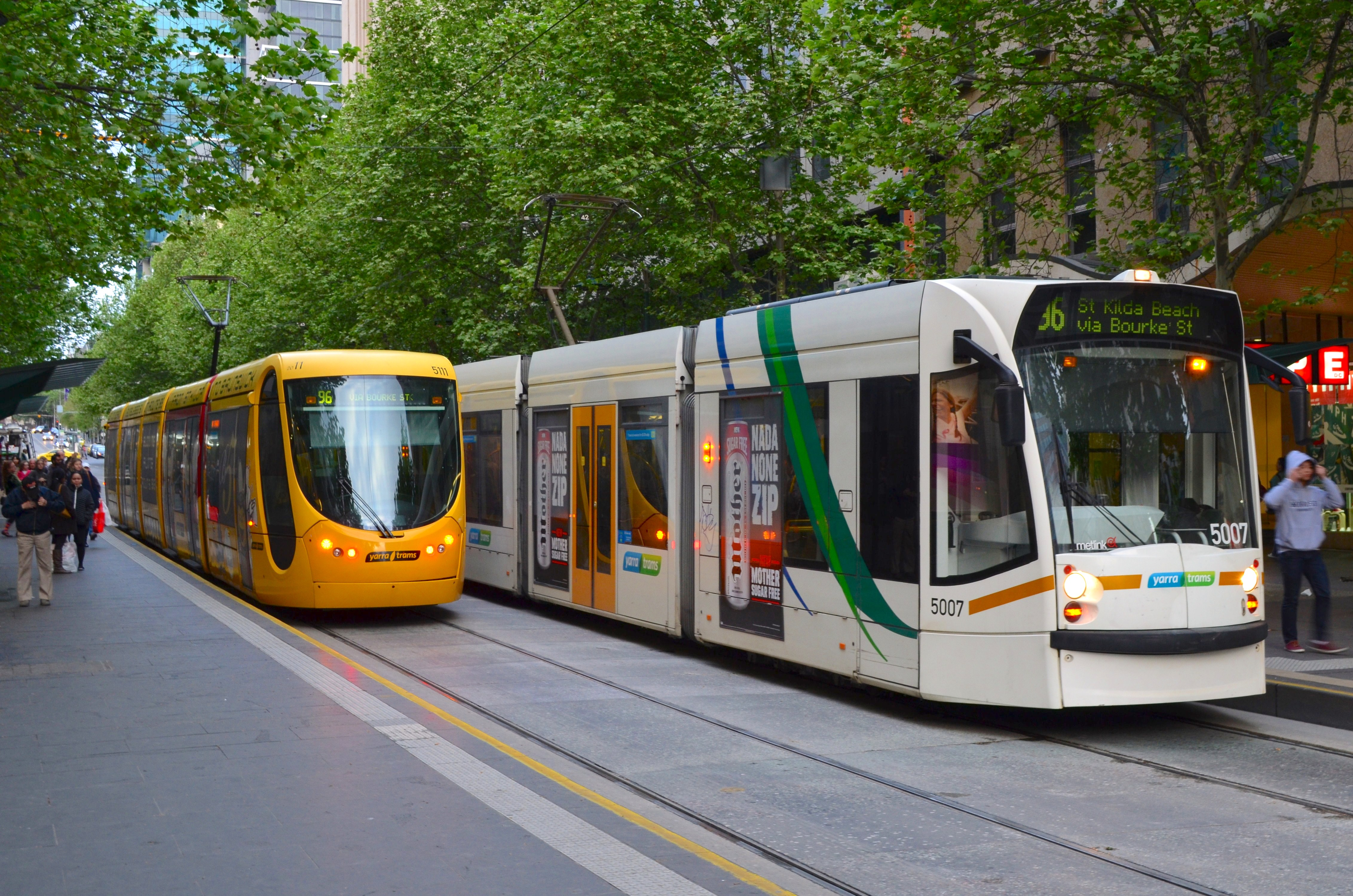 A pair of Melbourne trams in Bourke Street just east of Swanston Street. At right is D2 class no. 5007 operating a route 96 service to St Kilda Beach. At left is C2 class no. 5111 with another route 96 service, to East Brunswick.